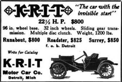 Image is an ad pulled from Motor Age magazine from the Google Books digital repository